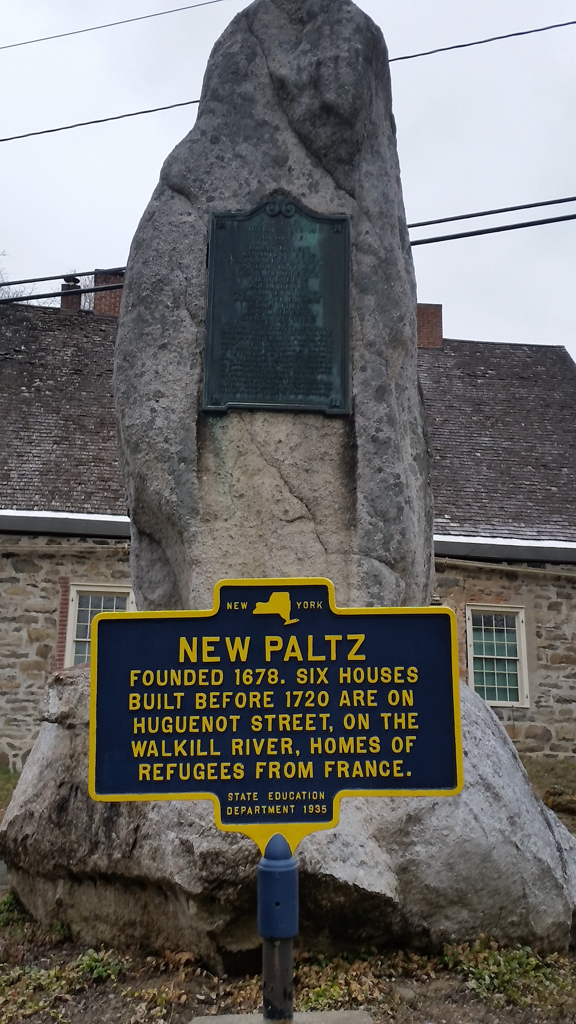 NY State Historic Marker at New Paltz's Huguenot Street Historic District for the New Paltz